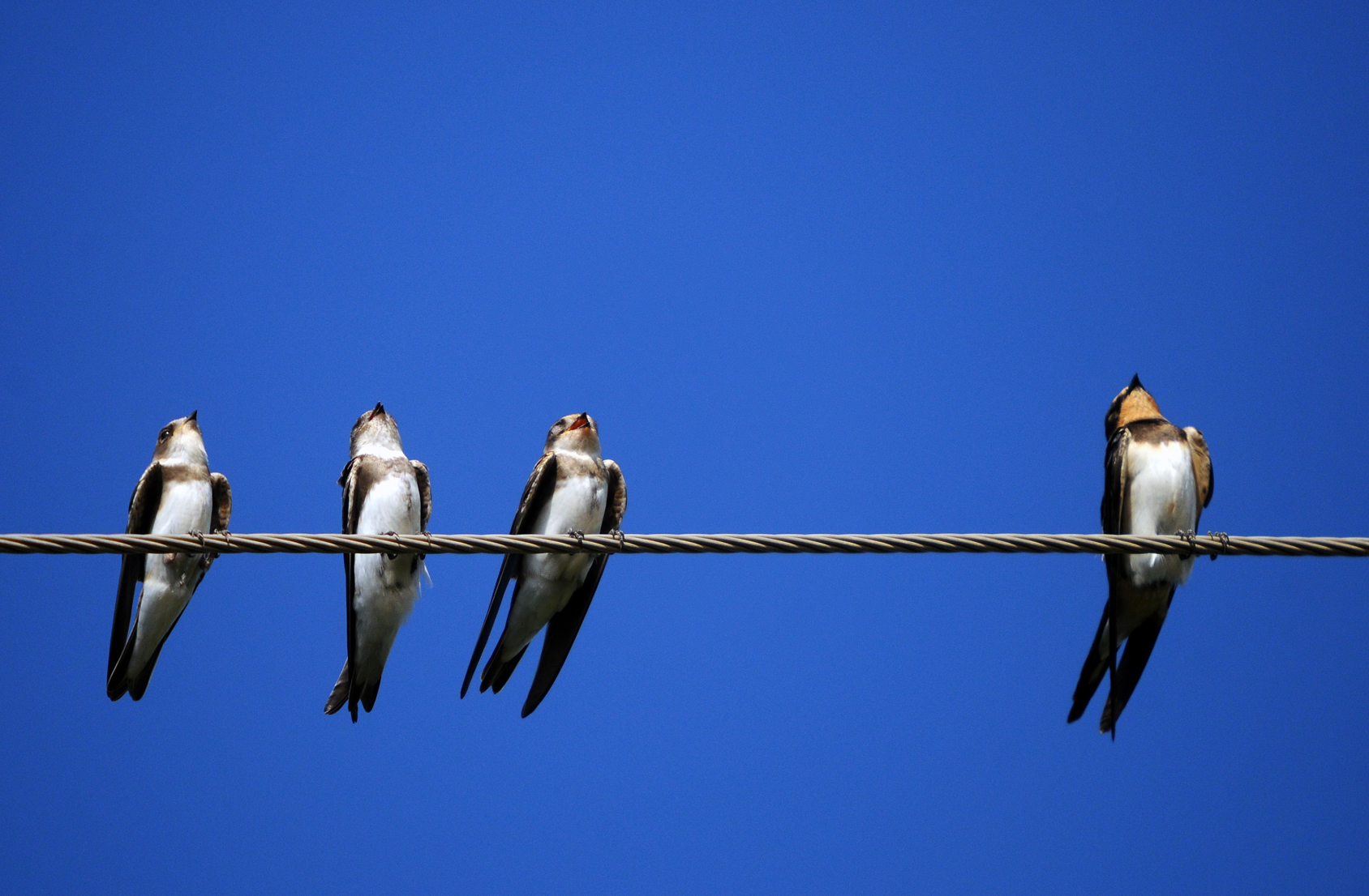 swallow